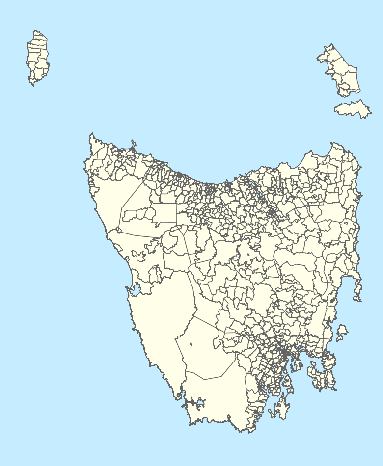 Map showing locality and local government area boundaries of Tasmania. Boundaries from Locality and Postcode Areas, theLIST ©State of Tasmania [CC BY 3.0 AU], 18 July 2016.